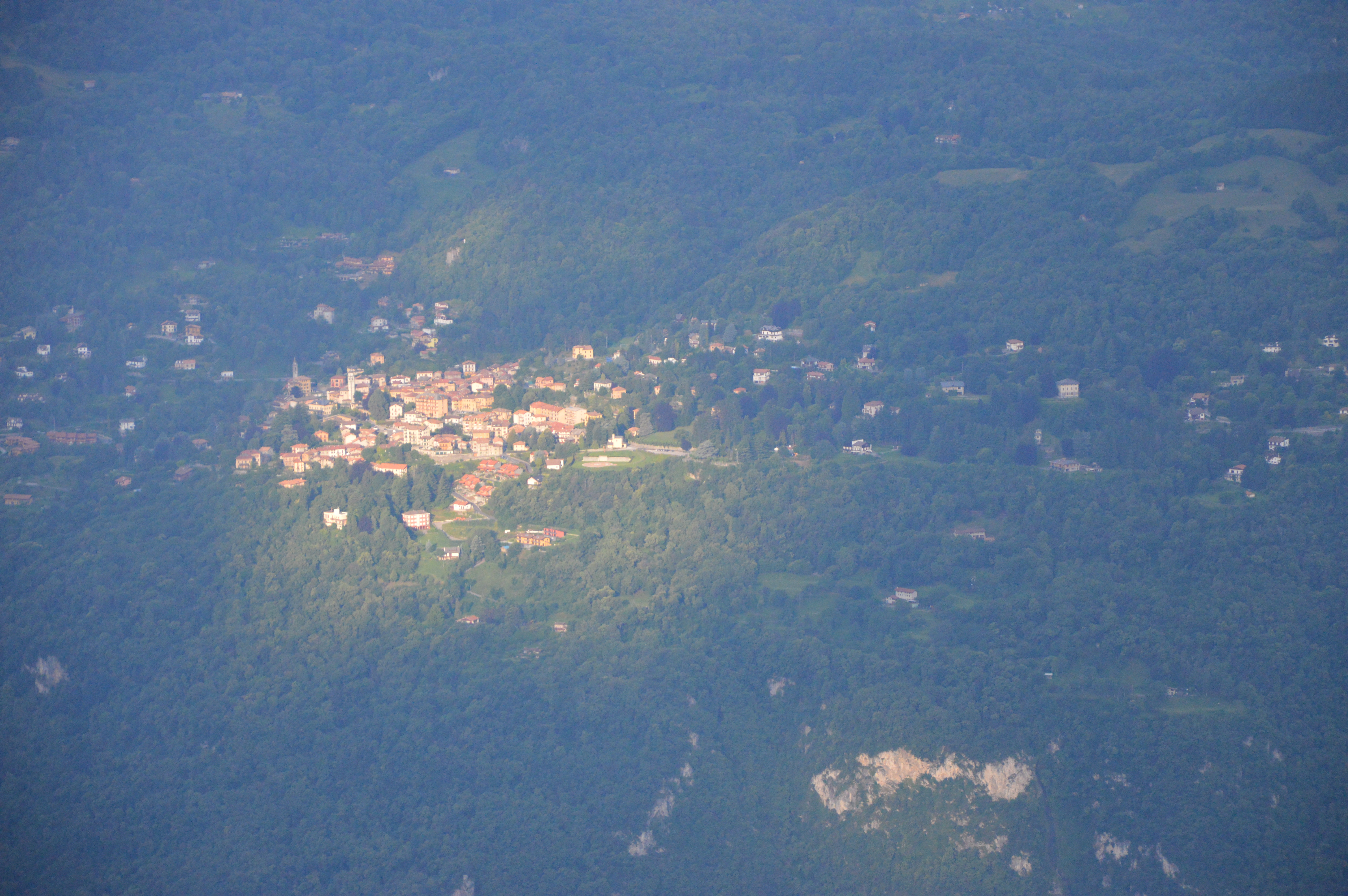 Civenna from the other side of the lake Como.